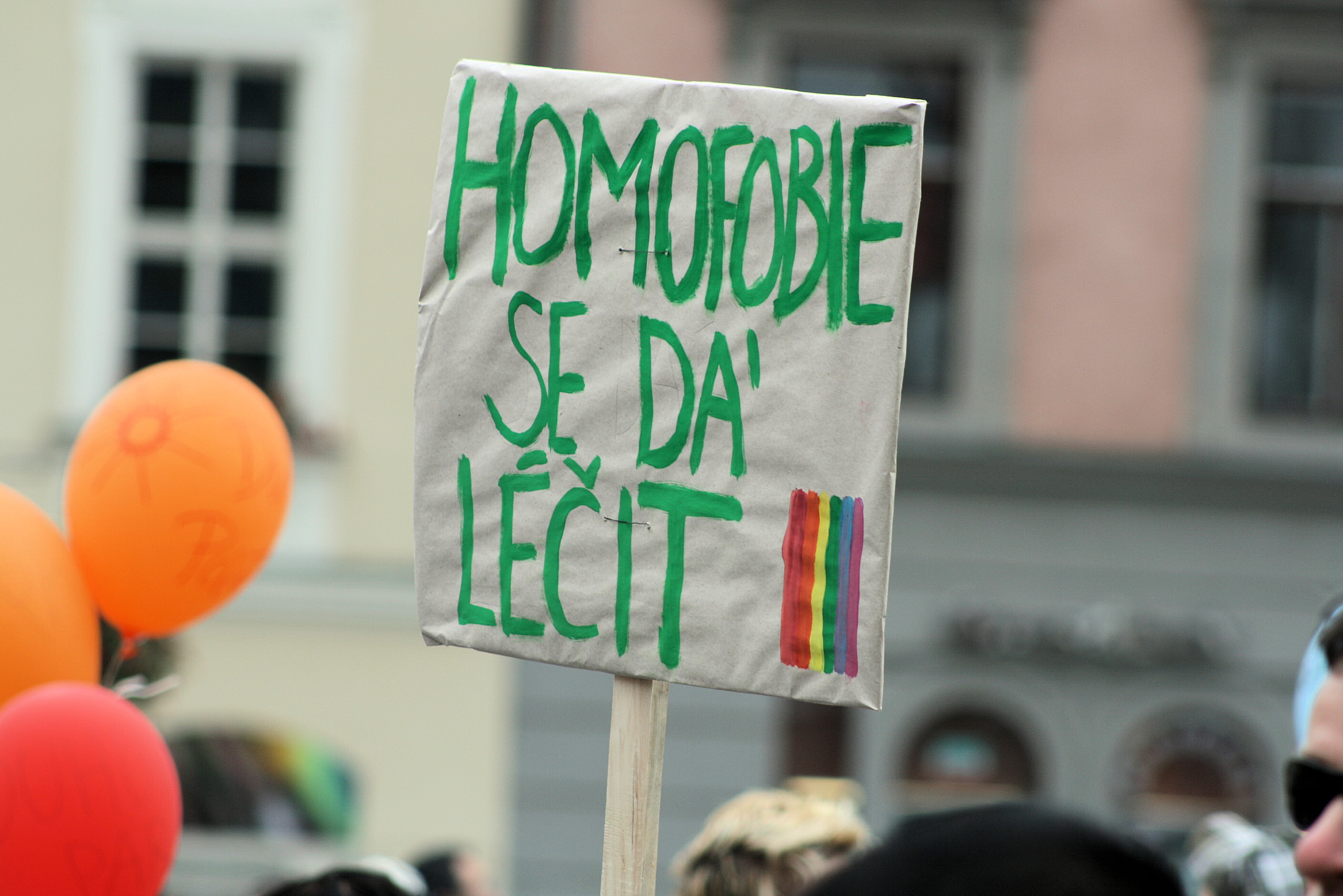 "Homophobia can be cured" - slogan banner at Queer Parade, Brno, Czech Republic.